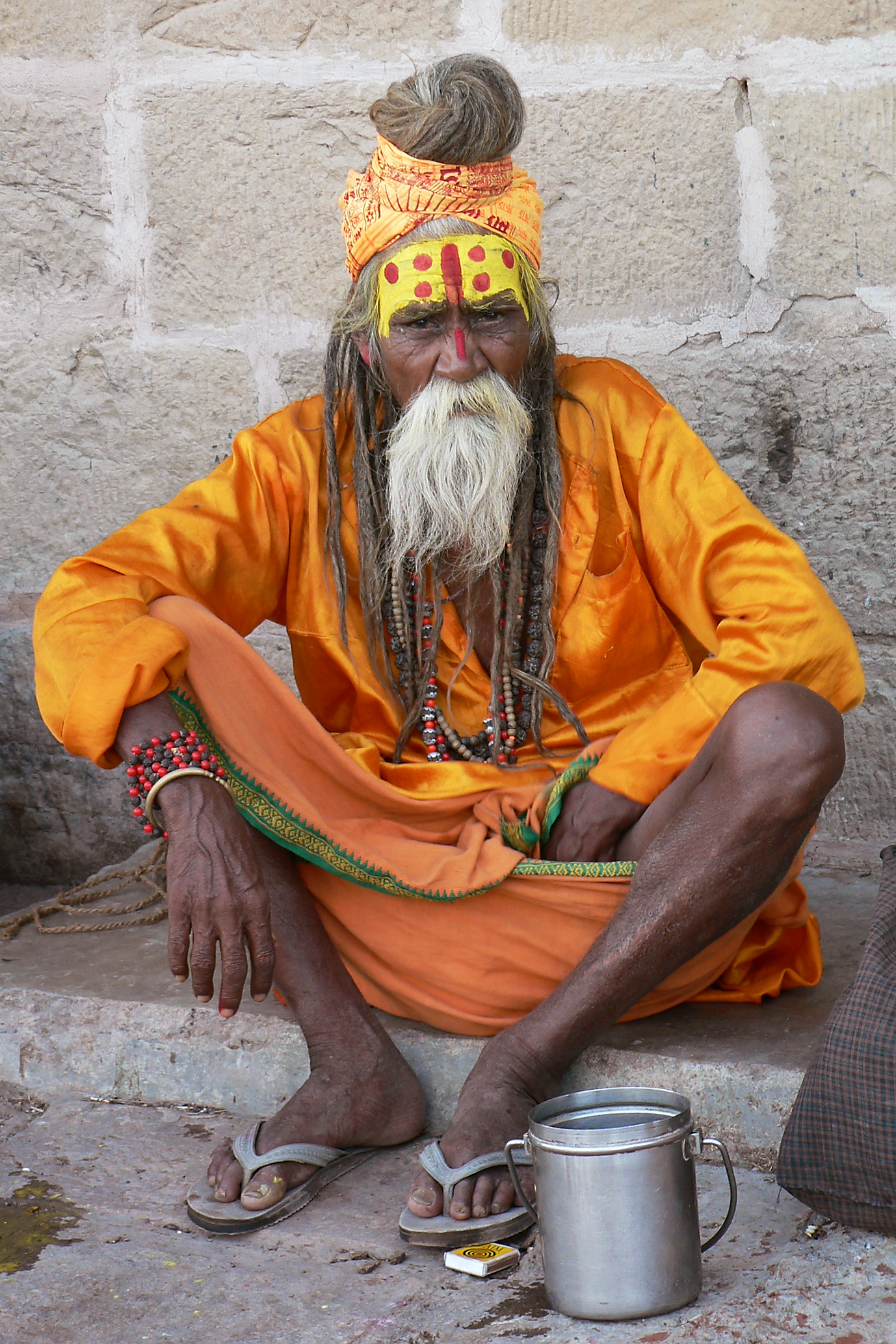 A sadhu, photographed in the holy city Varanasi, India